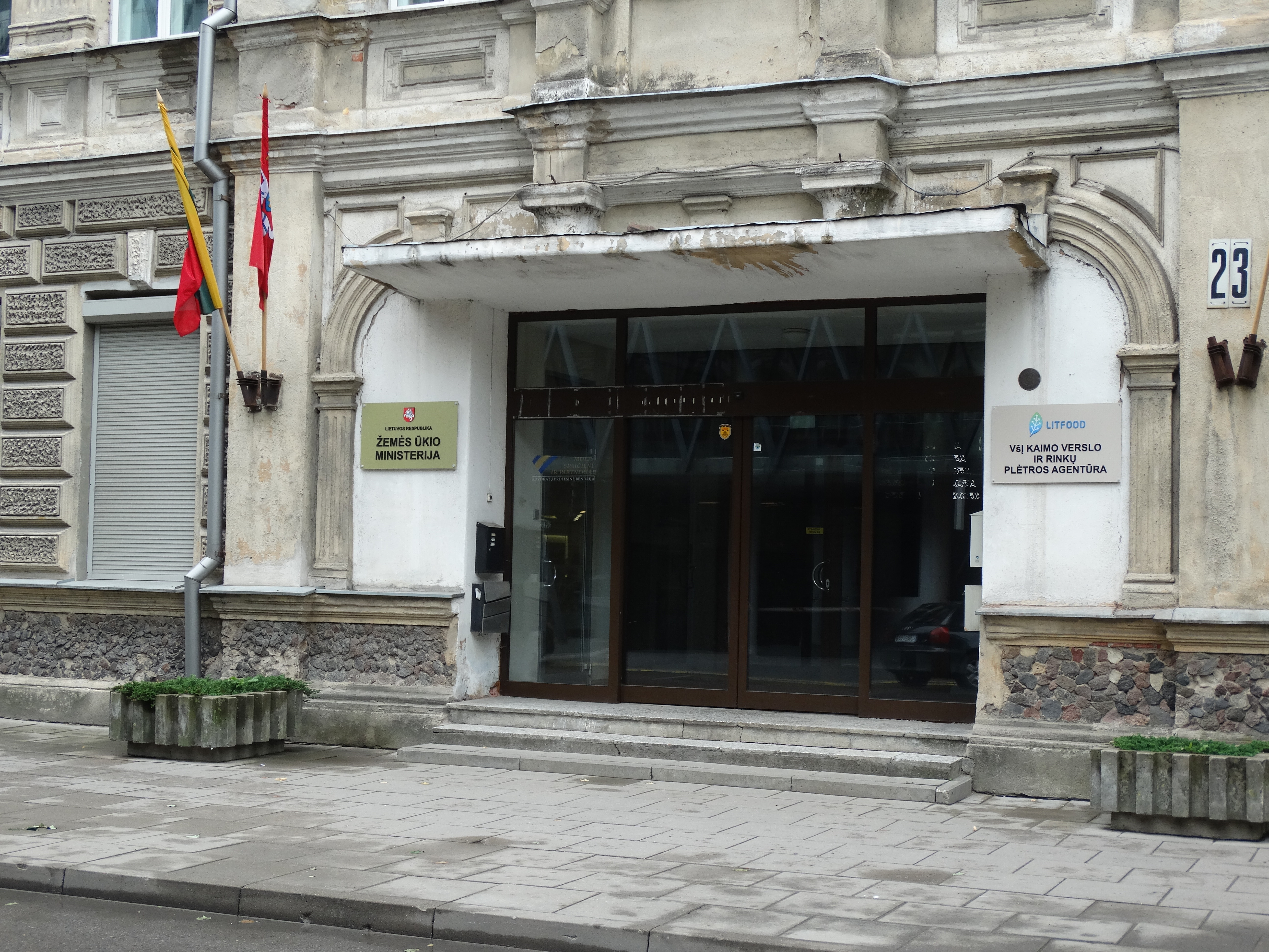 Ministry of Agriculture, subdivision in Kaunas, Lithuania